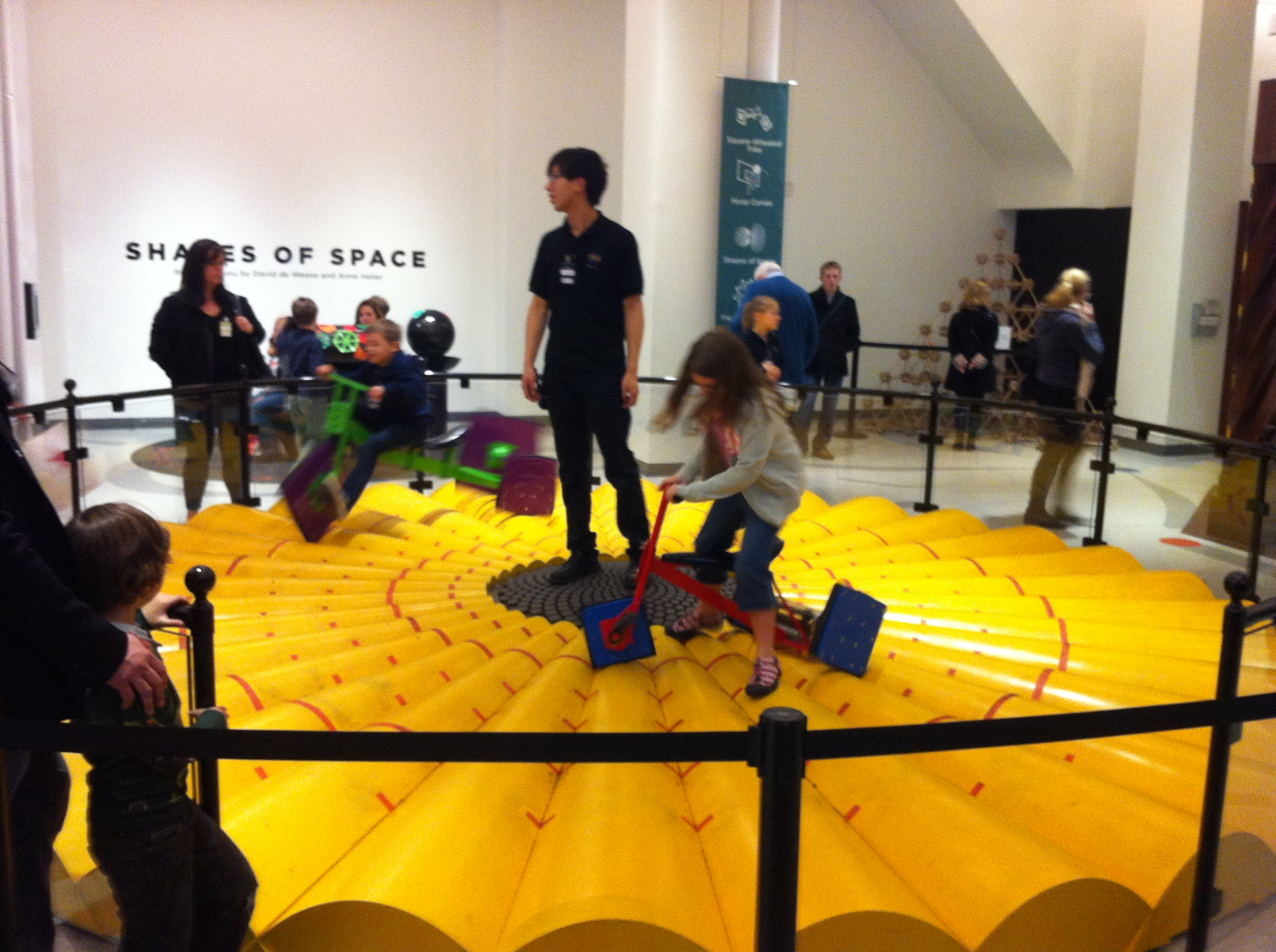 The square wheeled tricycles at the Museum of Mathematics in New York City, March 2013. Photo by Flickr user justgrimes.